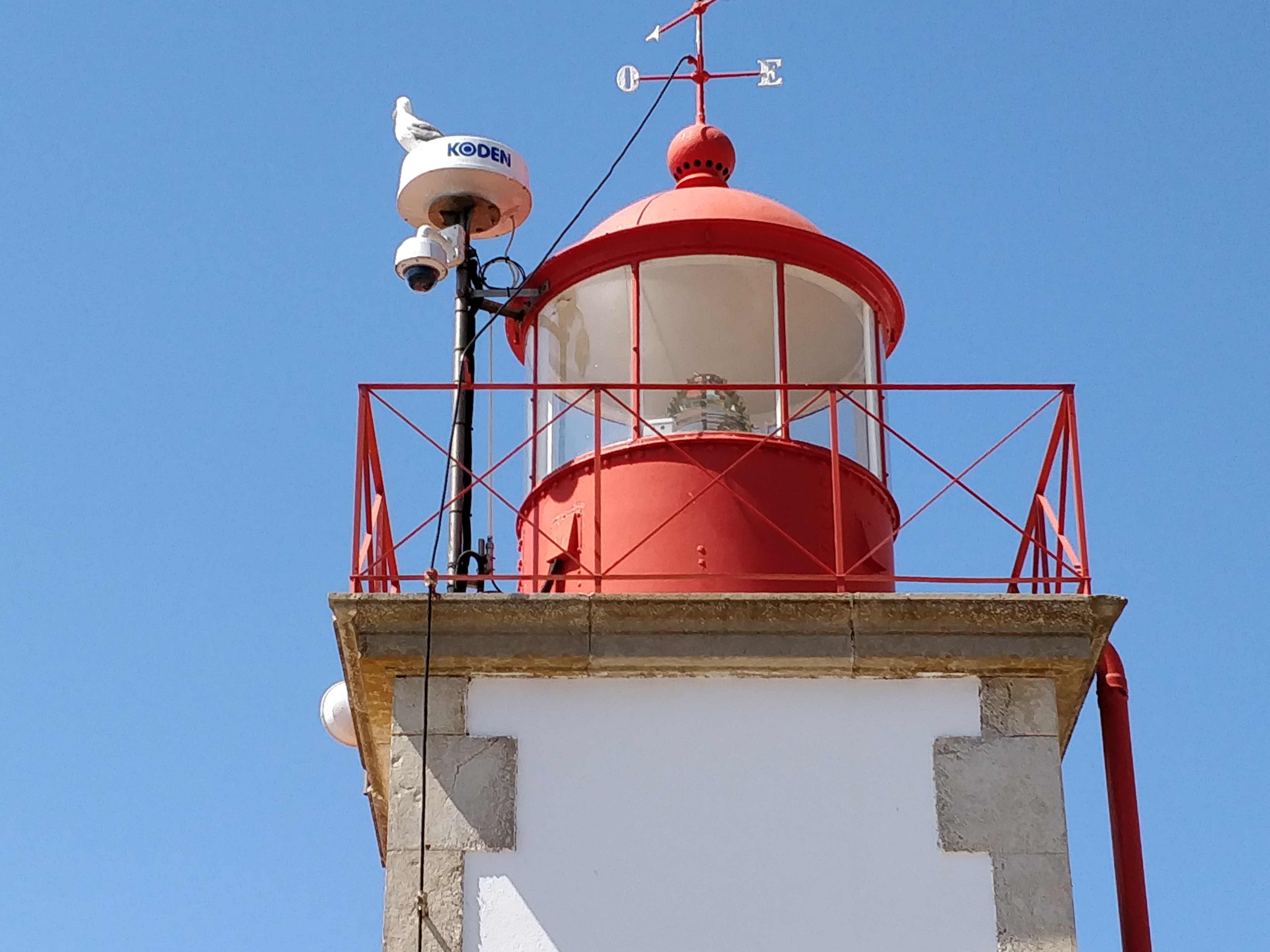 Close up of Ponta do Altar Lighthouse, near Ferraguda in the Algarve region of Portugal